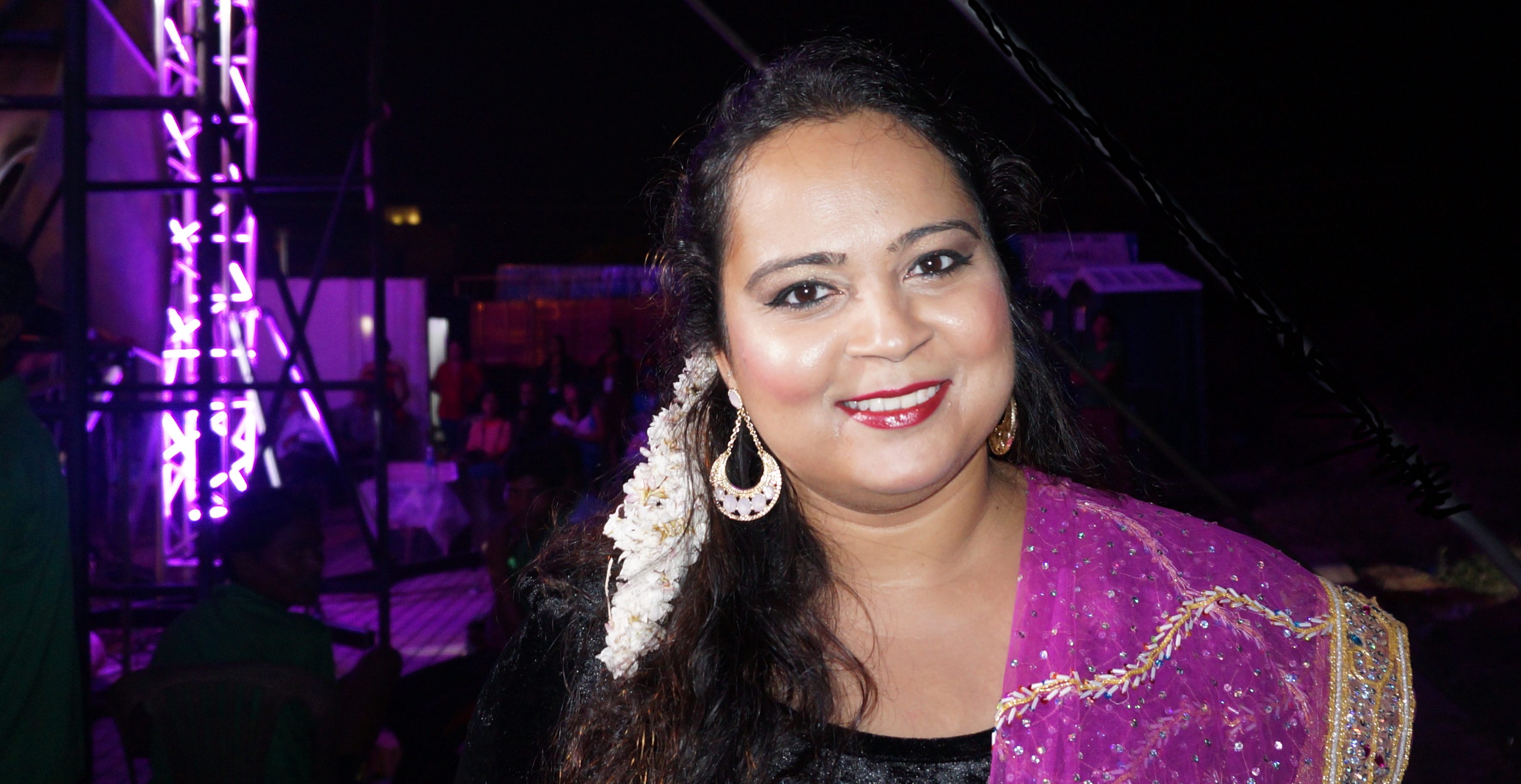 Sonia Shirsat, the Fado singer from Goa